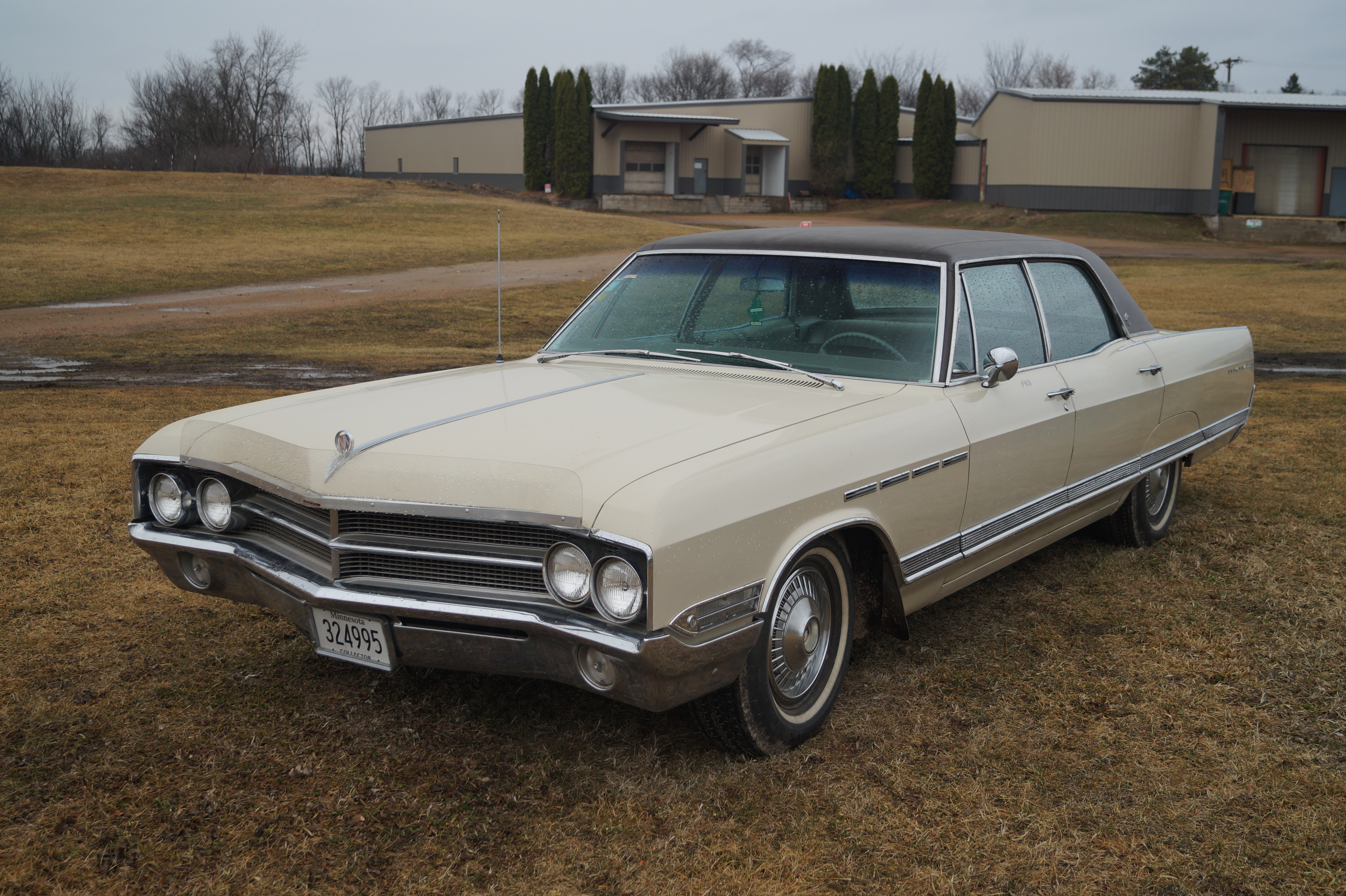 Hooked on Classics Watertown, Minnesota Click here for more car pictures at my Flickr site.